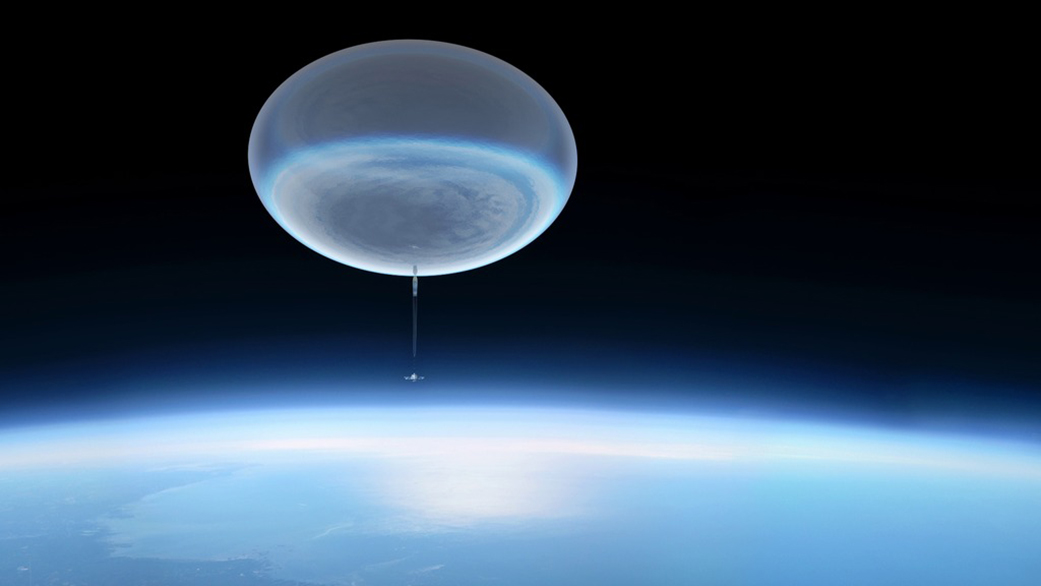 NASA Mission Will Study the Cosmos With a Stratospheric Balloon